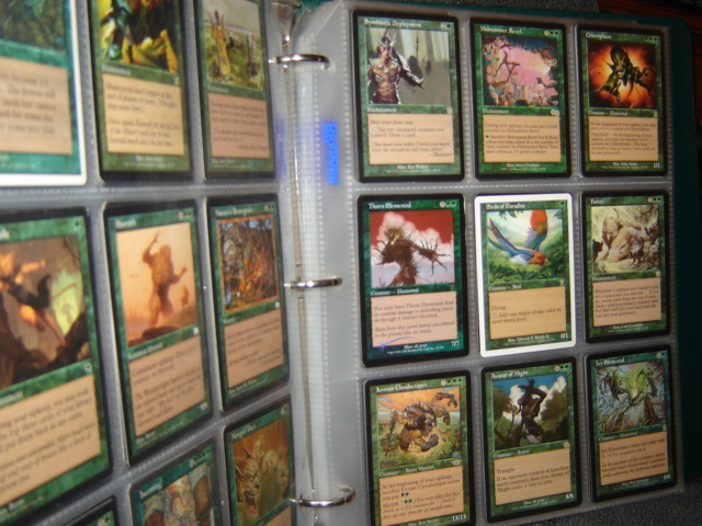 Sleeved cards in a binder.